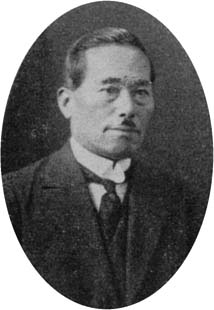 Mr. Shūjirō Tono, Manager of the Education Association of Kyoto Prefecture.